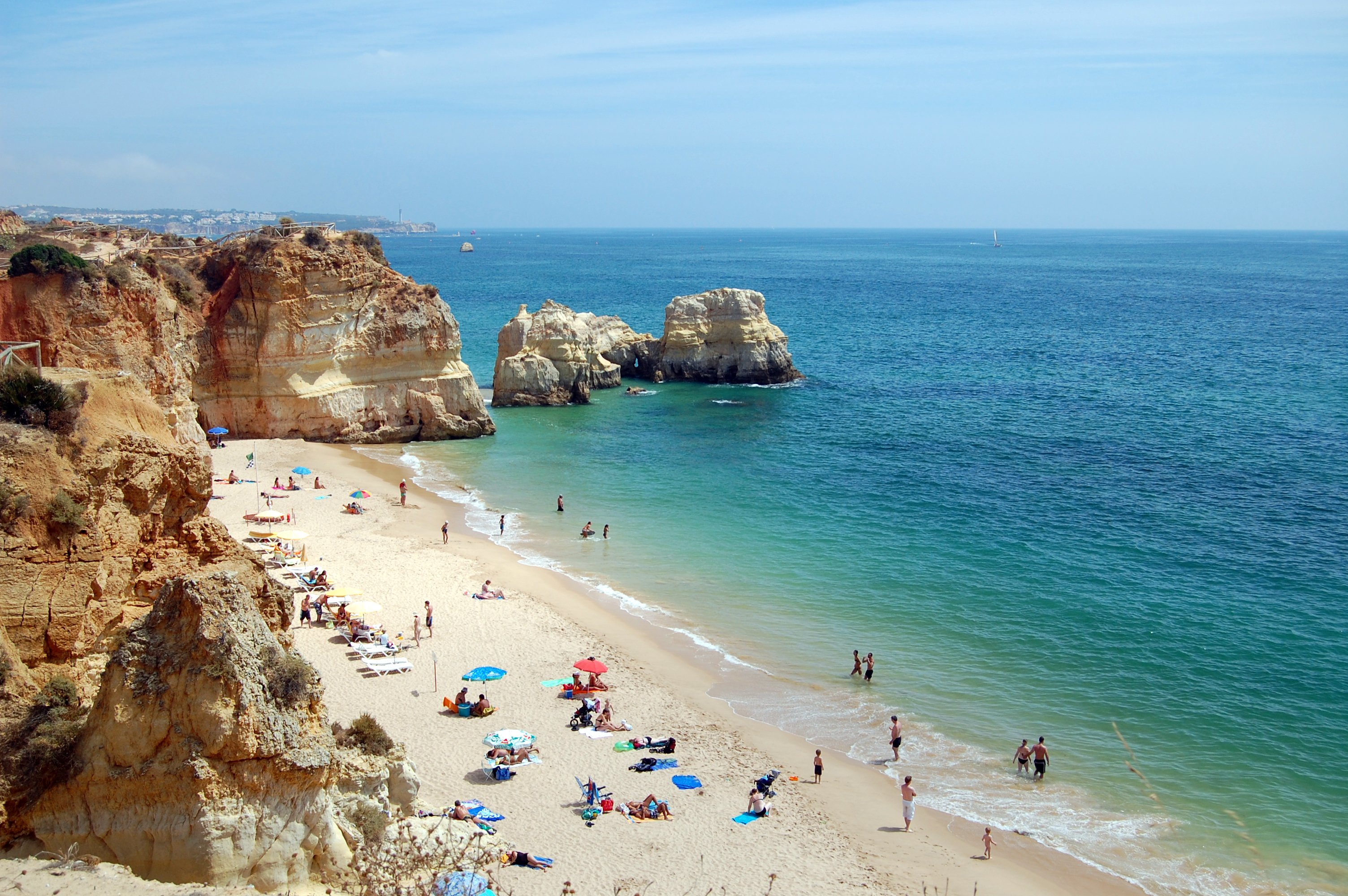 This is the Praia dos Tres Castelos beach, to the west of the Praia da Rocha town beach.[1] Praia da Rocha (Beach of the Rocks) is in Portimão, Algarve, Portugal.